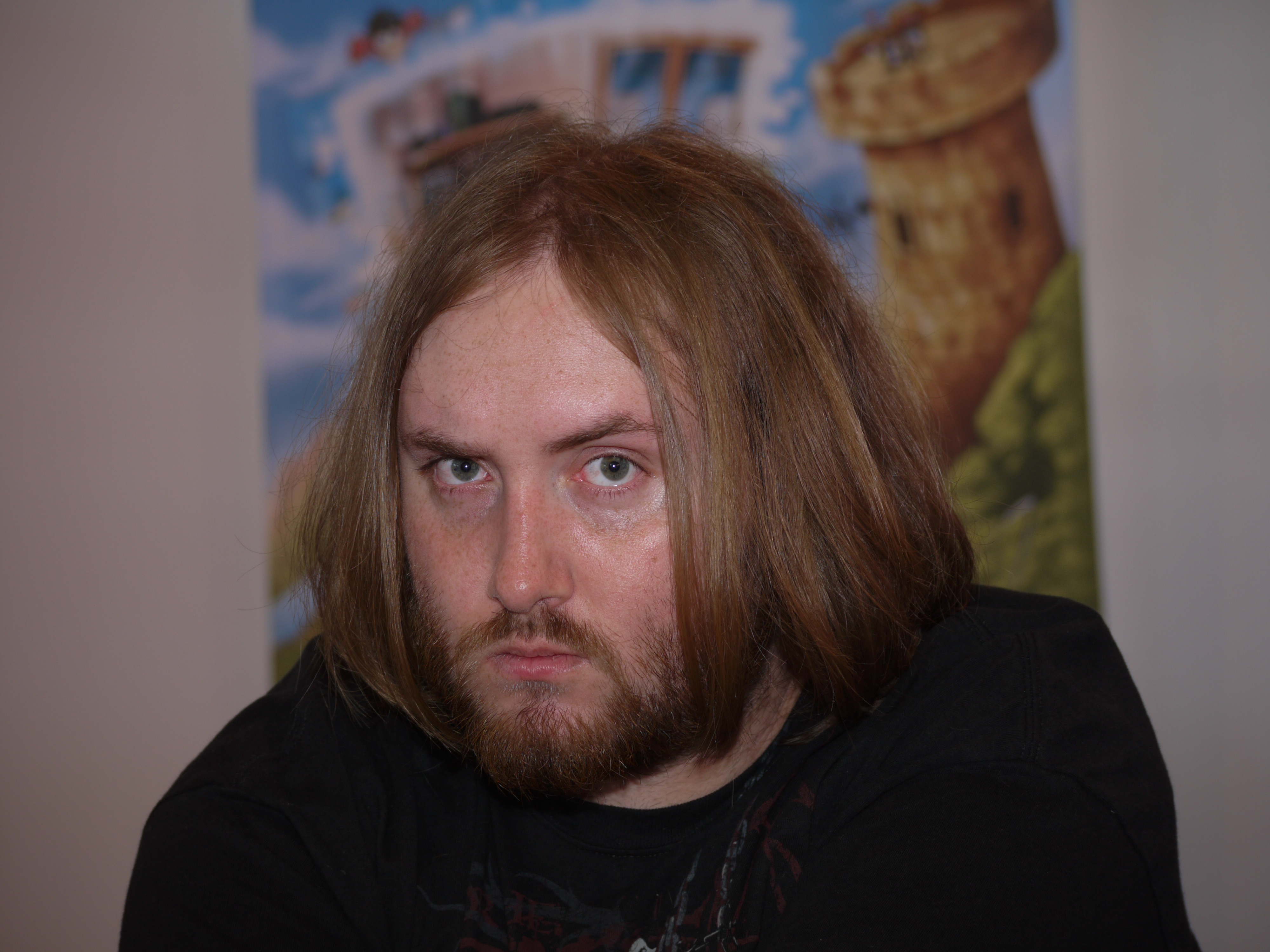 JapaNîmes convention 2010 edition of Nîmes - official site